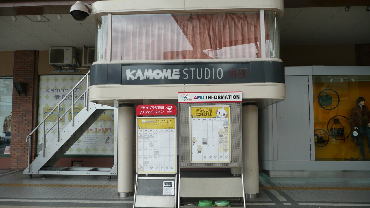 KAMOME Studio (Nagasaki Station - Nagasaki City, Japan)